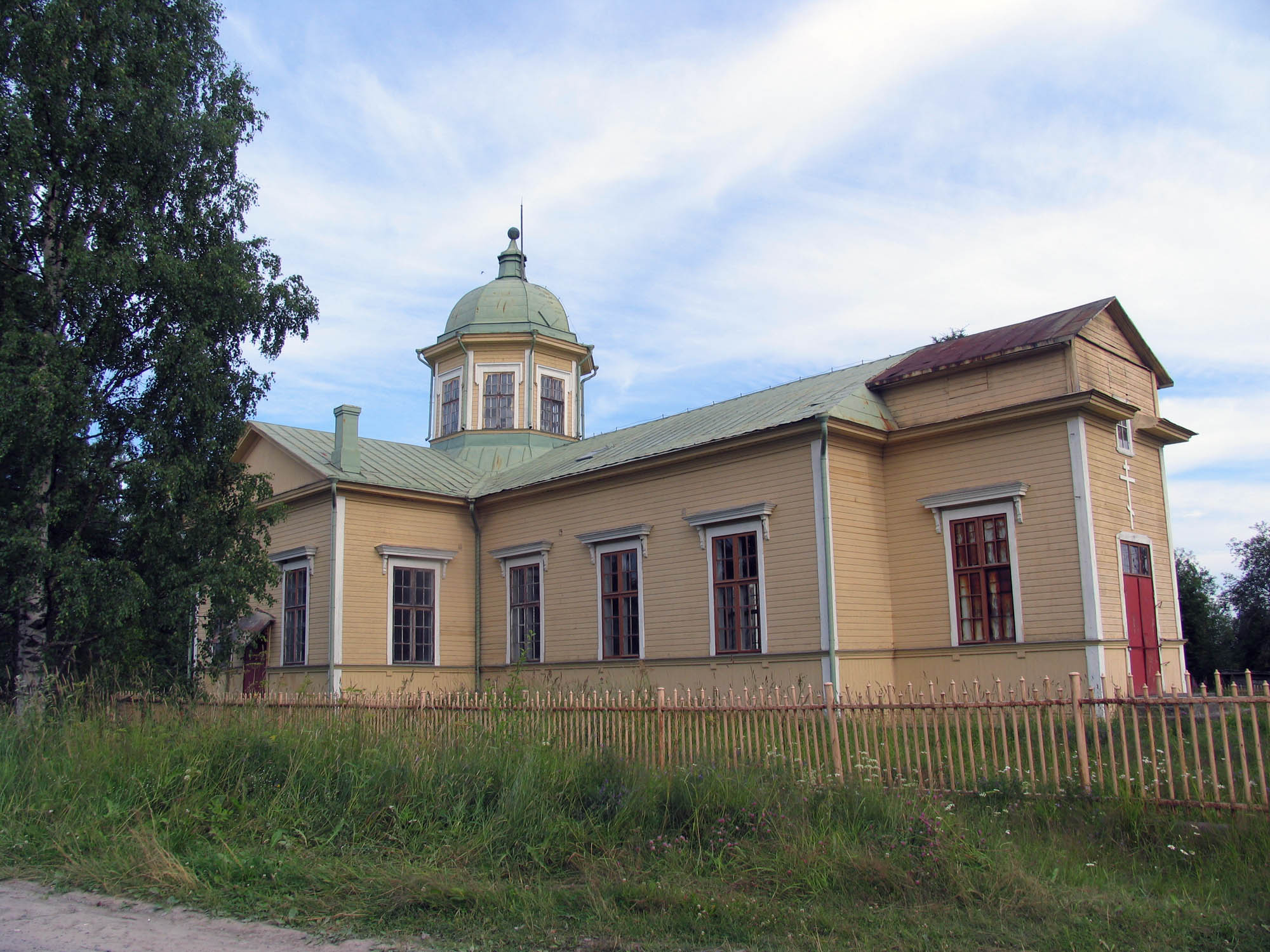 Suistamo church in Karelia